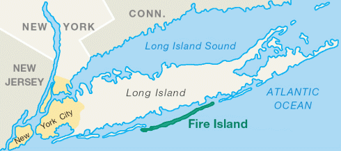 Fire Island, New York, US, Location Map